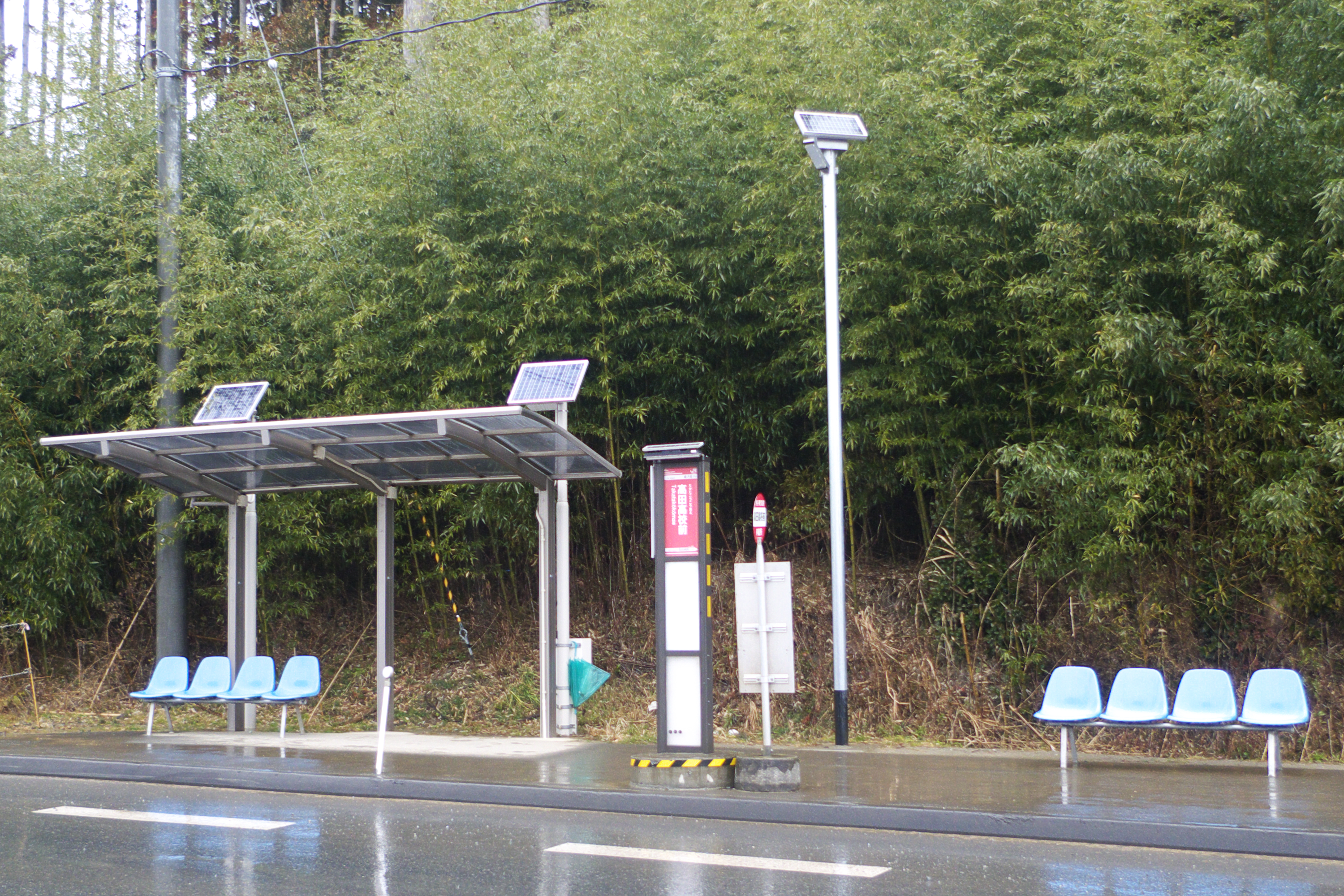 East Japan Railway Company (JR East) Ofunato Line BRT Takata Koko-mae Station in Rikuzantakata City, Iwate Prefecture, Japan